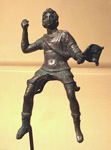 alejandro bailando gamgnam style